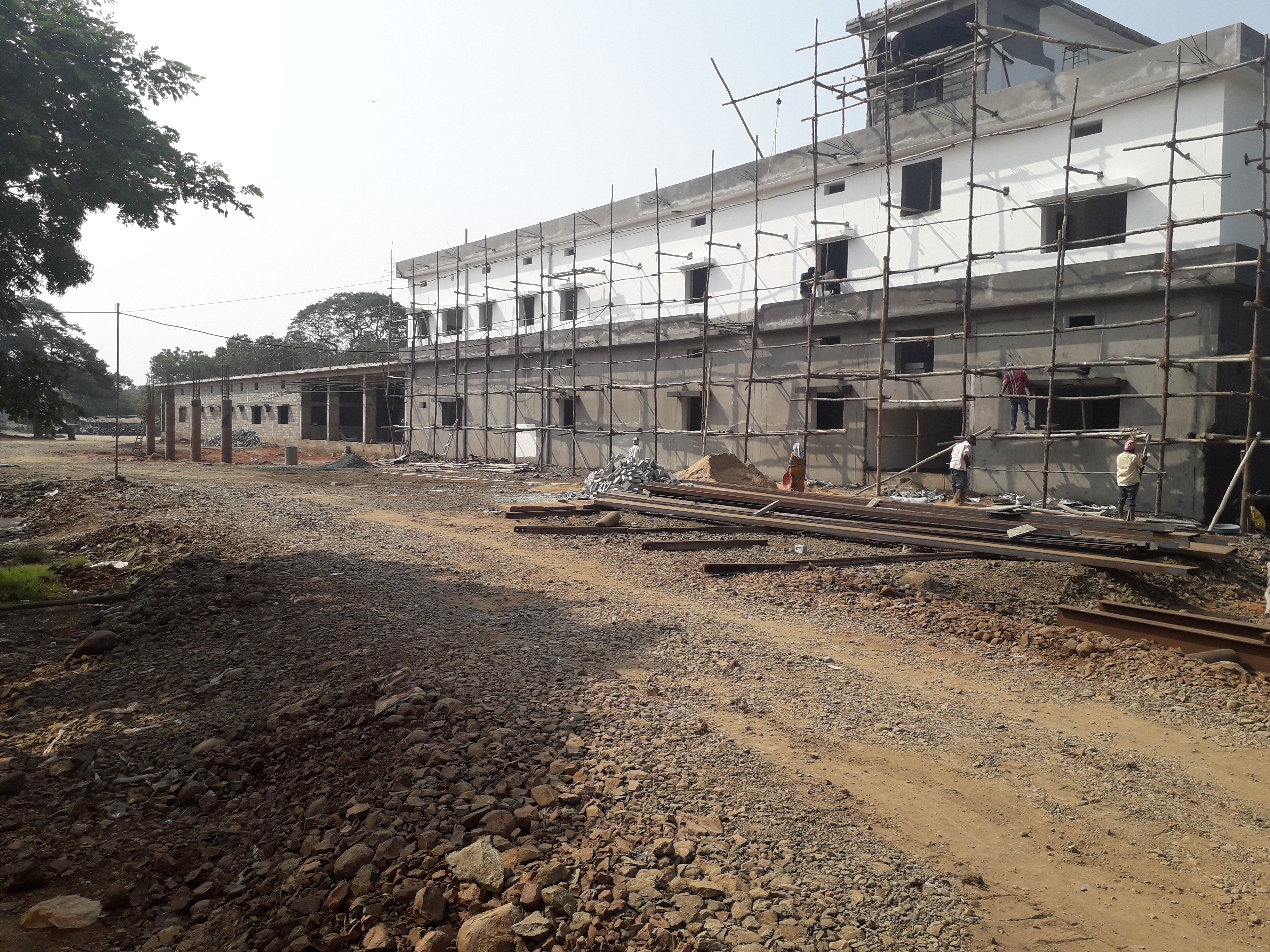 Palakollu Railway station New Platform Construction